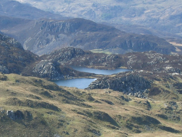 Llynnau Cerrig-y-myllt. Two little lakes, hidden in rocky surrounds, only visible after ascending Cnicht.